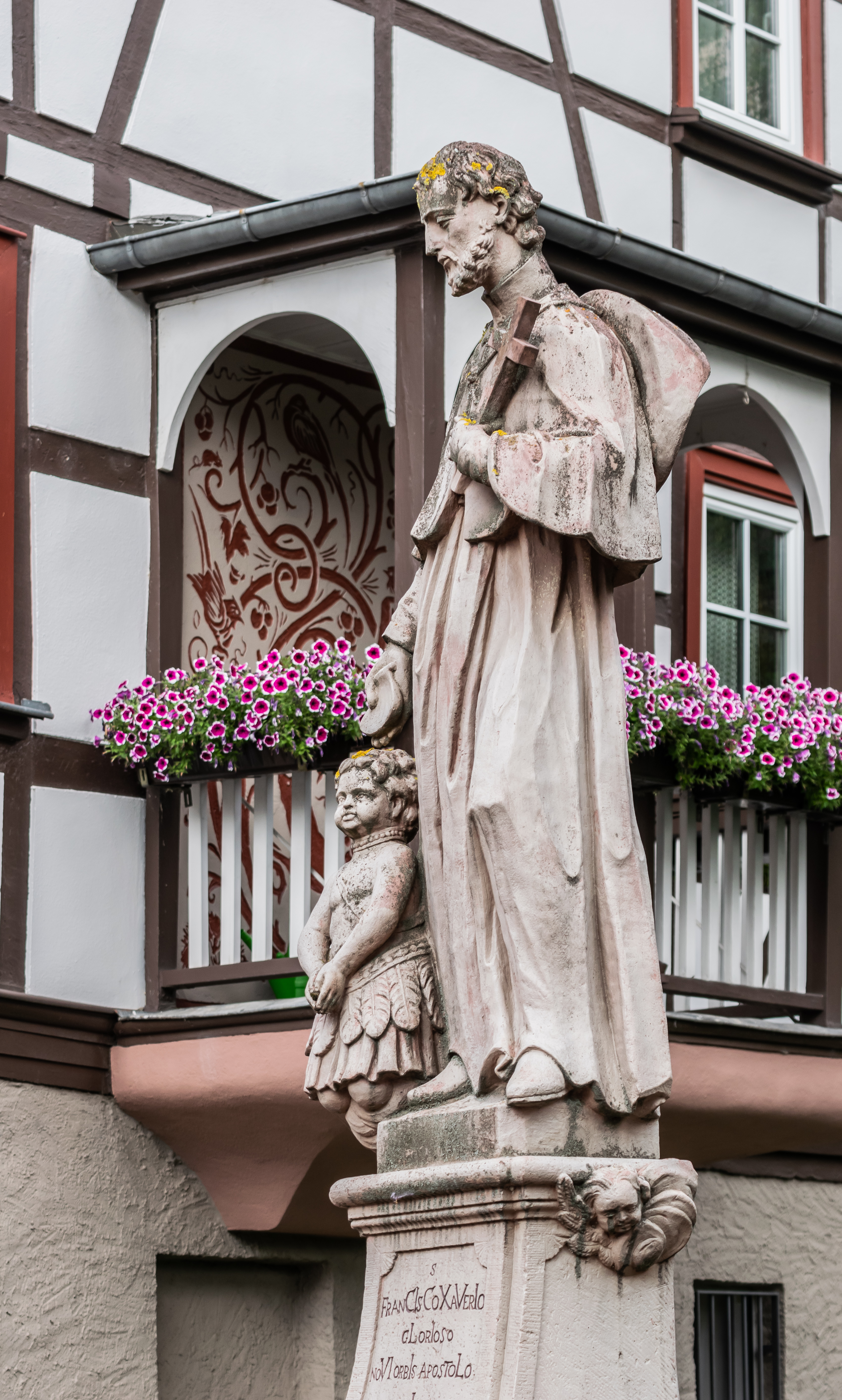 Statue at Mittelbrücke in Bensheim, Hesse, Germany